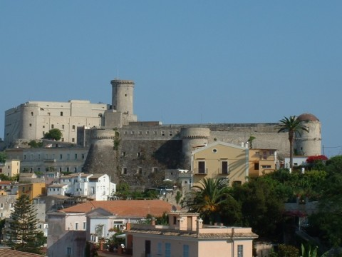 Castle of the houses of Angio and Aragon at Gaeta. I took the photo myself on 19th July, 2003.